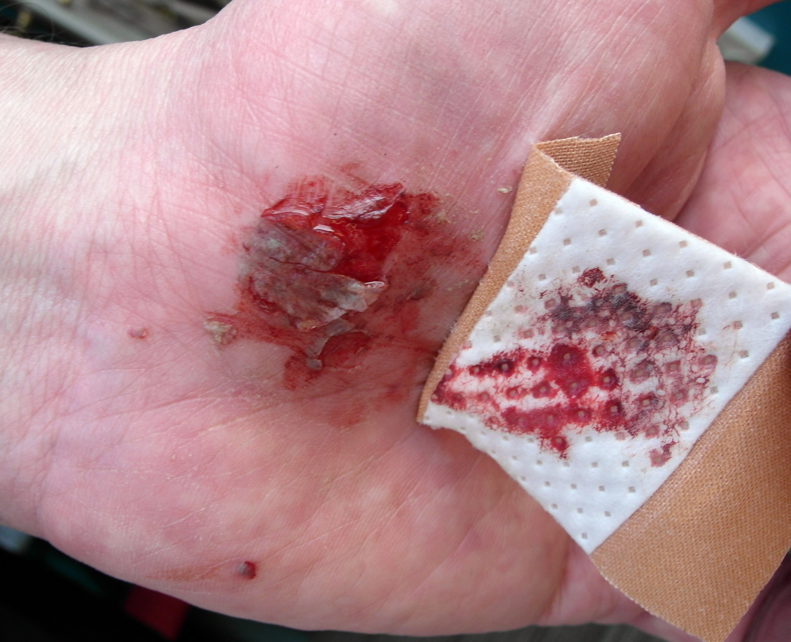 Fresh abrasion on the palm of a left hand, caused by sliding fall with the bicycle onto the street